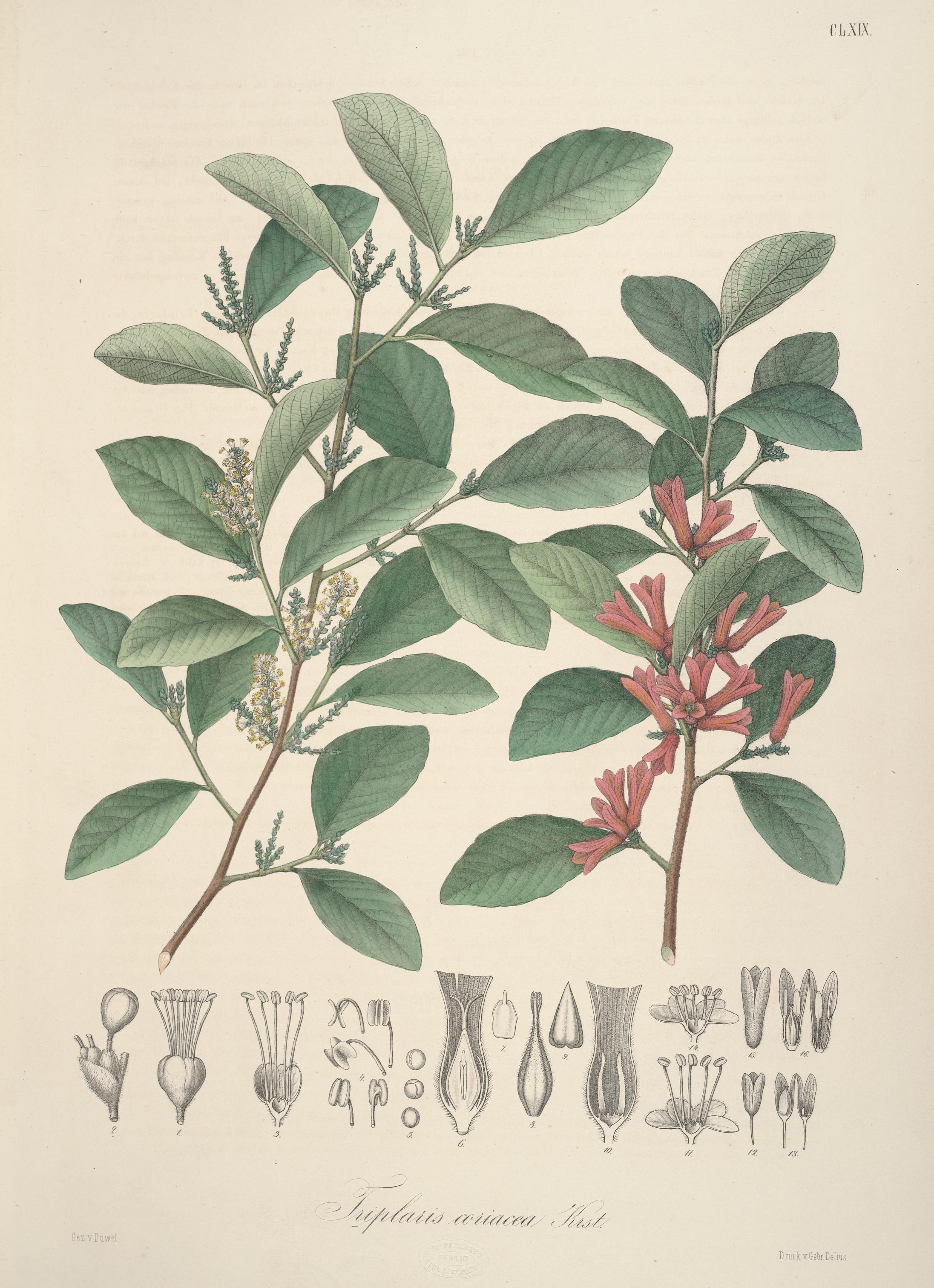 Triplaris coriacea, botanical illustration